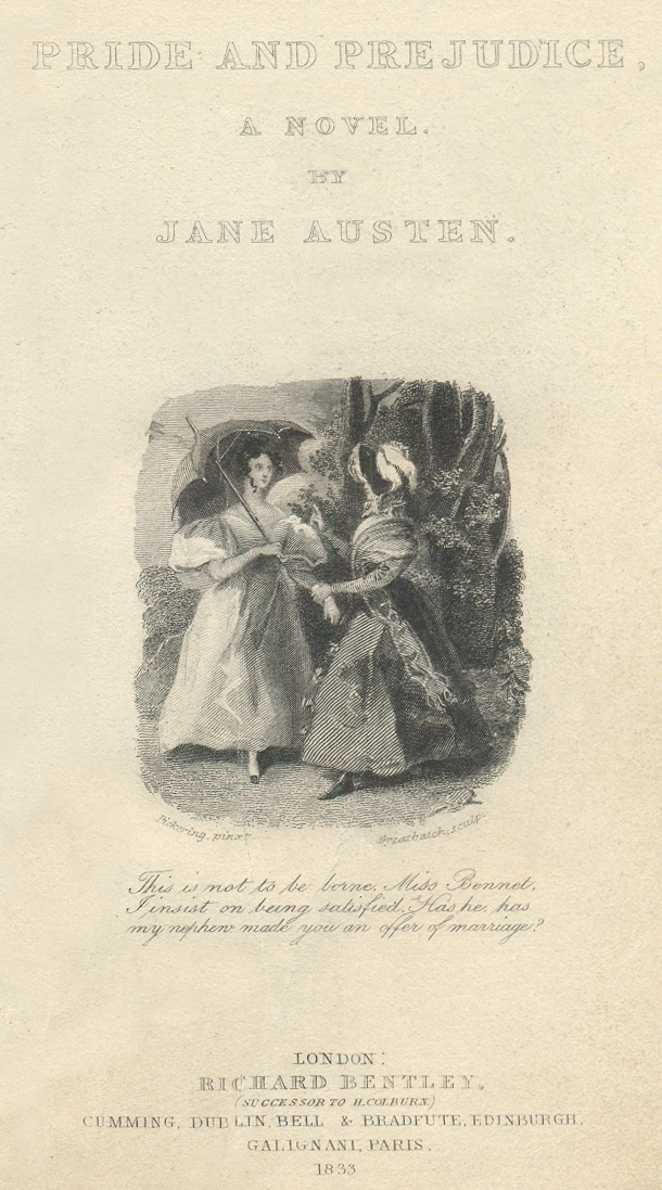 The title page of the Richard Bentley edition of Jane Austen's Pride and Prejudice, the first illustrated edition. Elizabeth on the left, Lady Catherine on the right. This, along with File:Pickering - Greatbatch - Jane Austen - Pride and Prejudice - She then told him what Mr. Darcy had voluntarily done for Lydia.jpg, are the first published illustrations of Pride and Prejudice.[1] They are shown wearking big-sleeved and big-skirted 1830's fashions, rather than the quasi-"Grecian" Empire Silhouette / Regency fashions which were worn during Jane Austen's adult life.